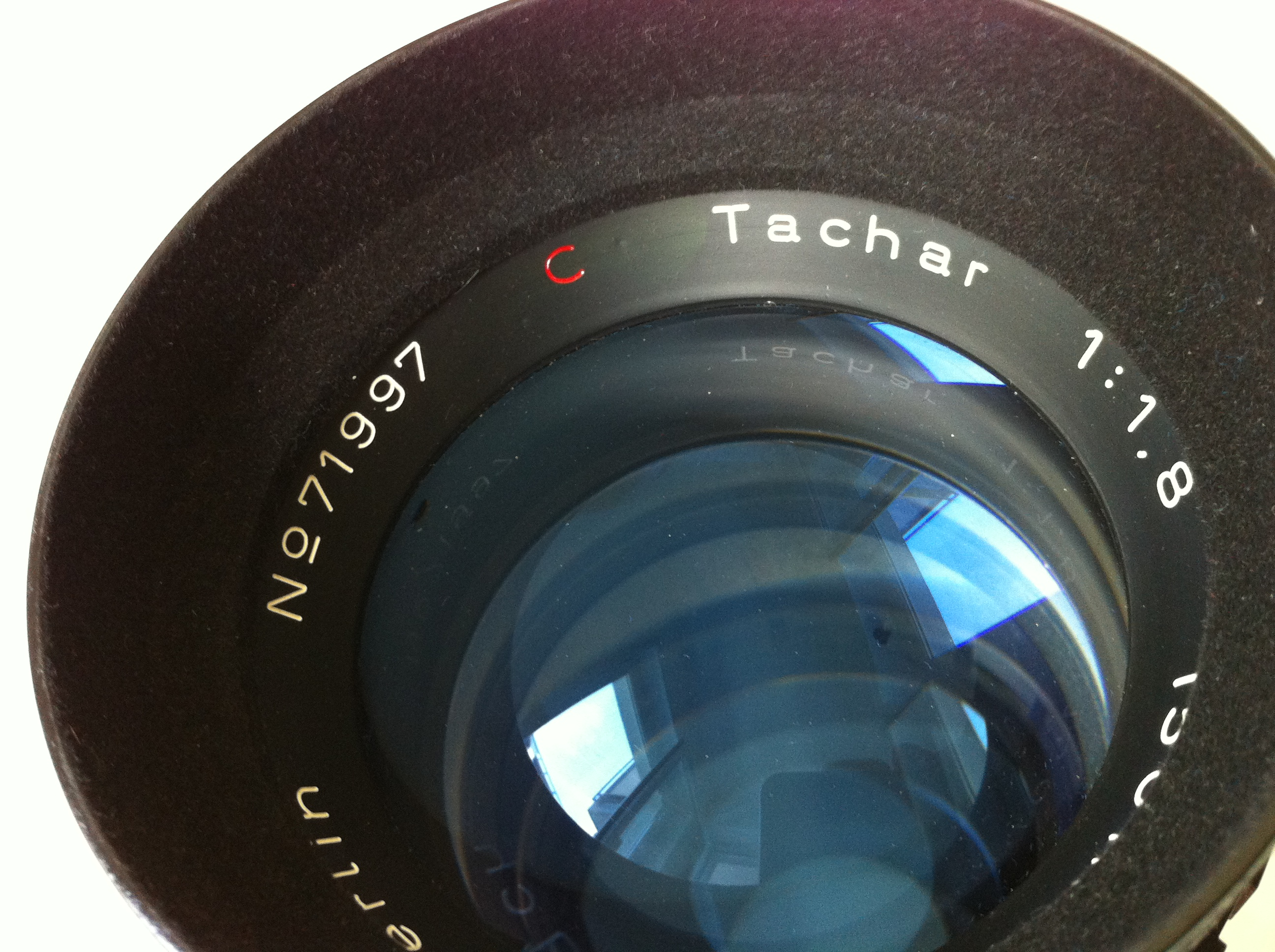 Astro-Berlin Tachar 1:1.8 150mm. Picture of an example of the estate of the physicist Dr. Hans J. Einighammer.